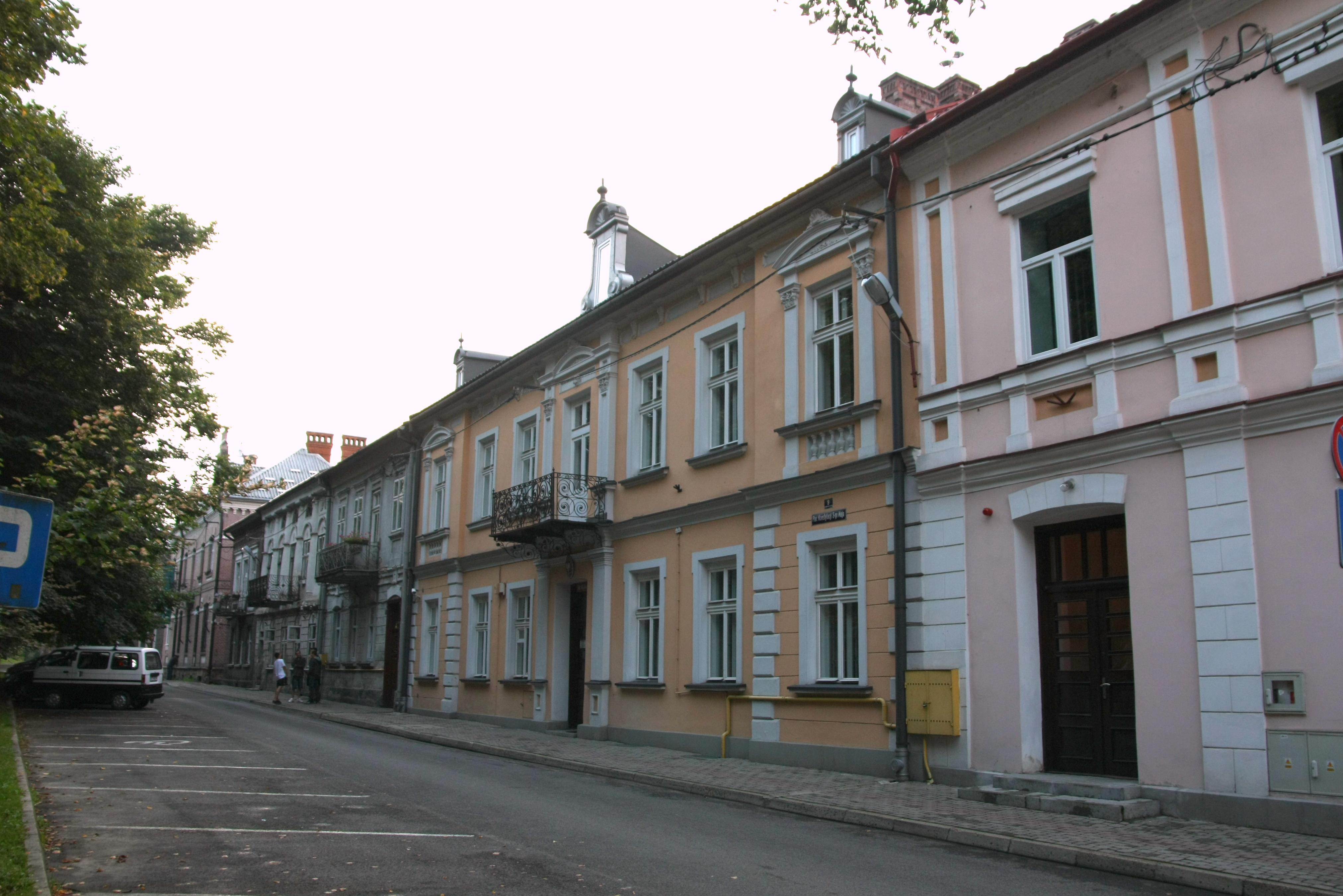 plac Konstytucji 3 Maja in Lesko